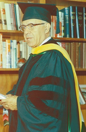 A cropped picture of the former Dean (Dr. Joseph Weil)